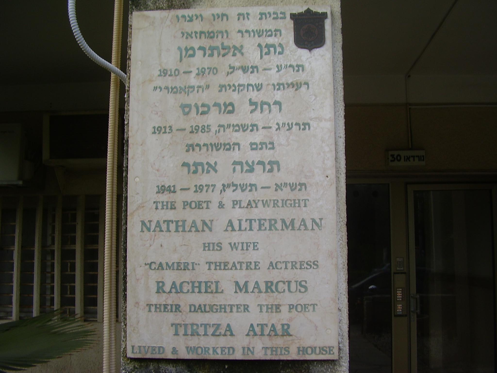 memorial plate to the poet nahtan alterman and his family in tel aviv שלט זיכרון במקום מגוריו של נתן אלתרמן ,רחל מרכוס ותרצה אתר בשדרות נורדאו 30 בתל אביב